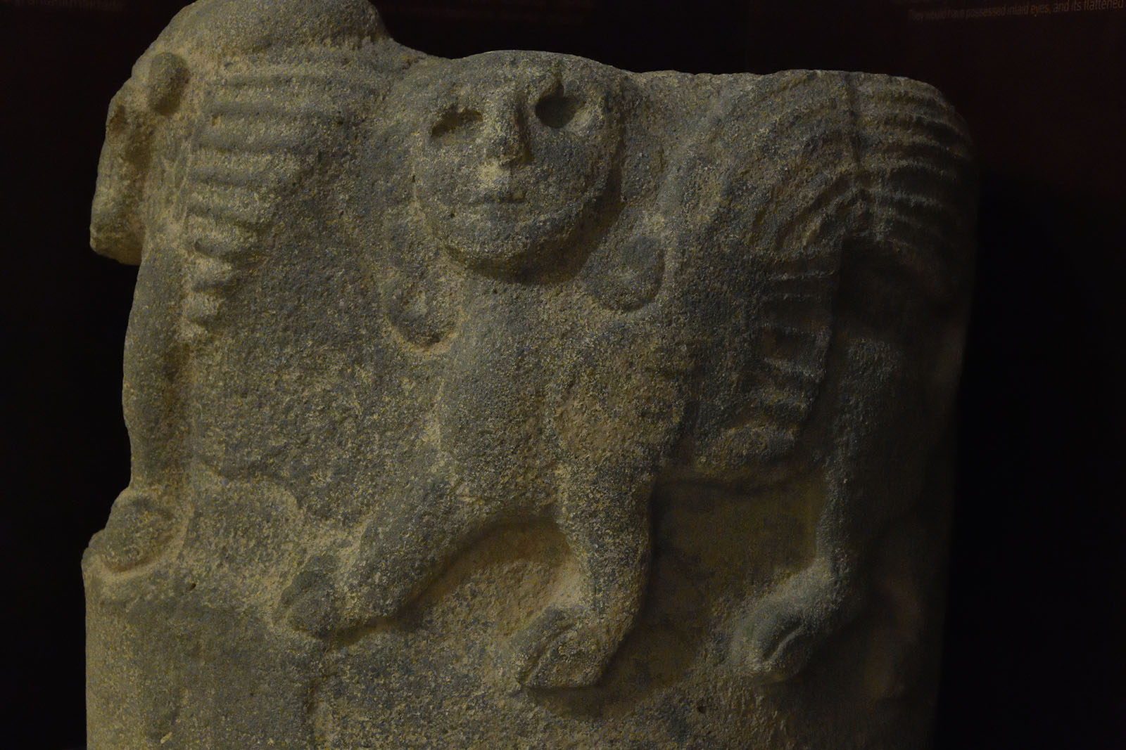 Basalt, 9th century BC. A winged bull was a “Lamassu”, it and a spinx were typical Syro-Mesopotamian symbols of power and royalty. They would have possessed inlaid eyes, and its flattened surface suggests it would have stood against the interior of a doorway, to protect against evil spirits. Found in a pit adjacent to the statue of King Shupiluliuma.